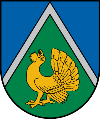 Coat of arms of Dundagas novads, Latvia